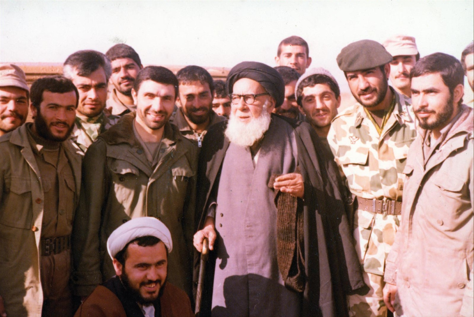 Ayatollah Seyyed Reza Bahaoddini Alongside Ali Sayyad Shirazi on the front of the Iran-Iraq War